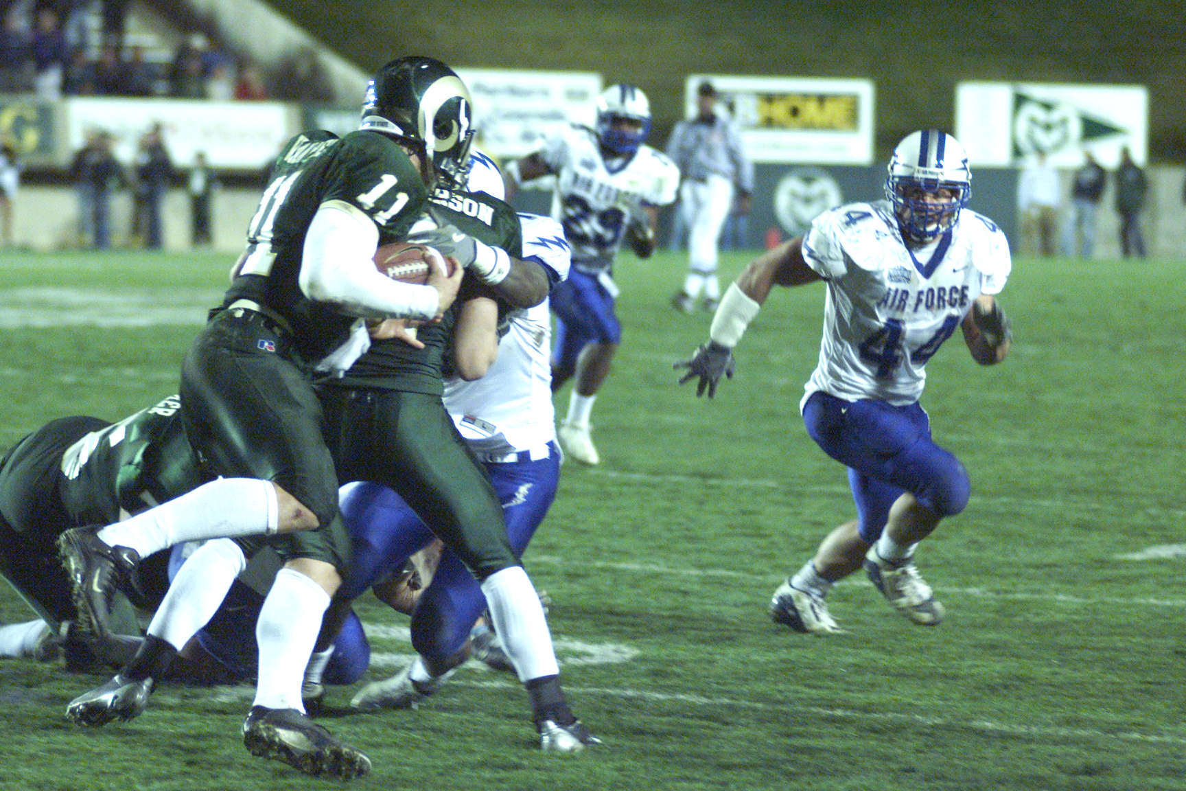 Colorado State University quarterback Bradlee Van Pelt (11) and United States Air Force Academy inside linebacker Trevor Hightower head for a mid-field showdown, during the CSU-Air Force football game, Oct. 16. CSU won 30-20. The Rams advance to 5-3 with the win, while the Falcons fall to 6-2.